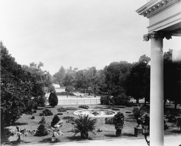 The North Lawn of the White House from the window of the current President's Dining Room.